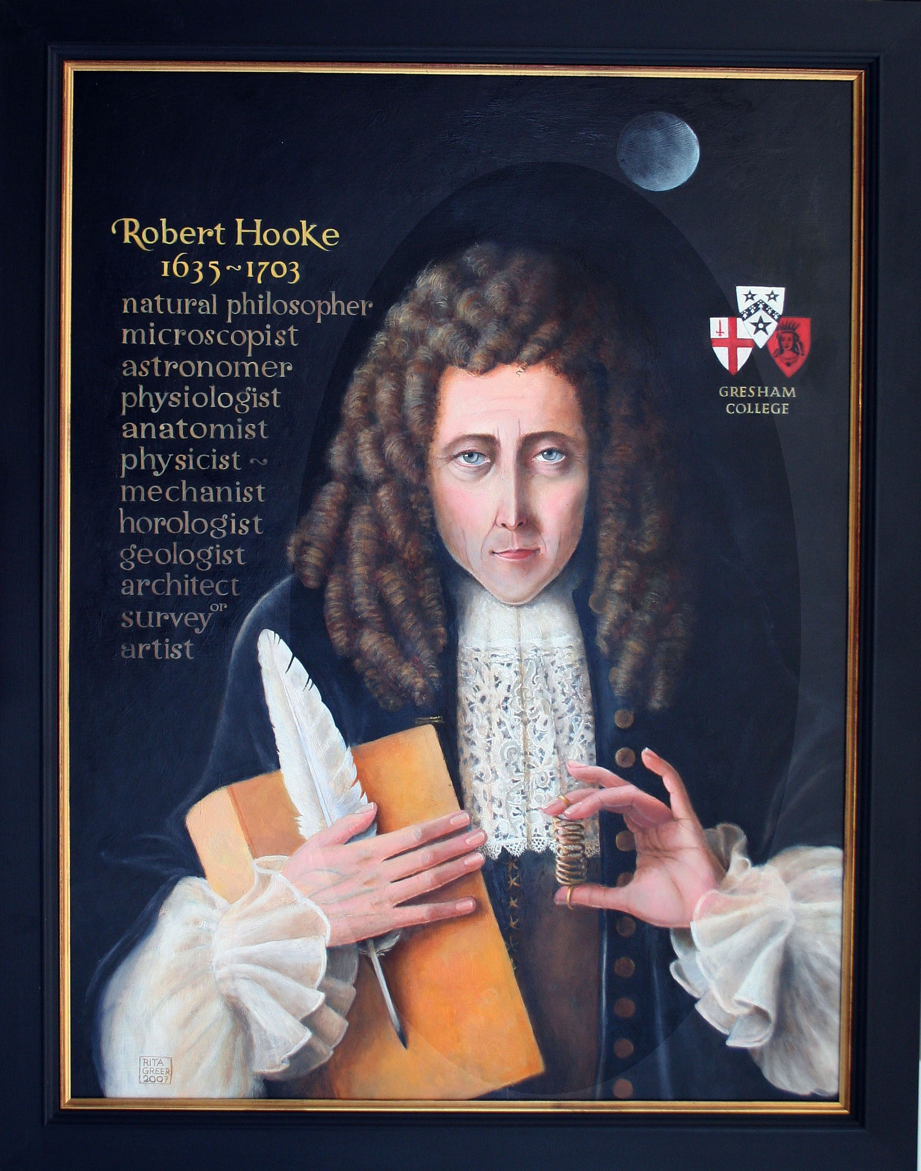 A memorial portrait of Robert Hooke for Gresham College, London, where Hooke was Professor of Geometry. It lists his varied achievements and shows him with his record book of experiments for The Royal Society, a spring and quill pen, dressed as a gentleman. The painting hangs at Gresham College.